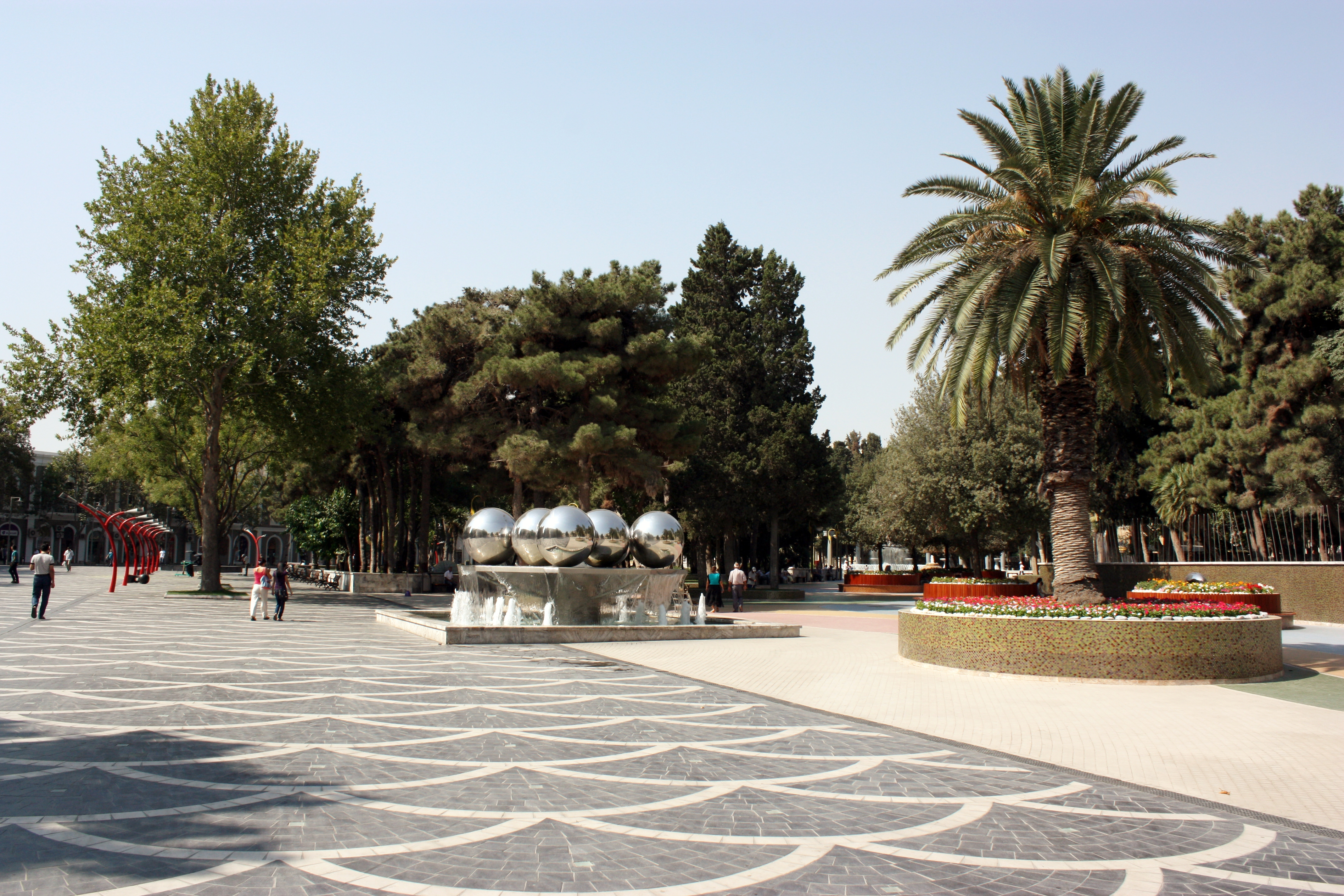 Fountain Square, Baku, Azerbaijan